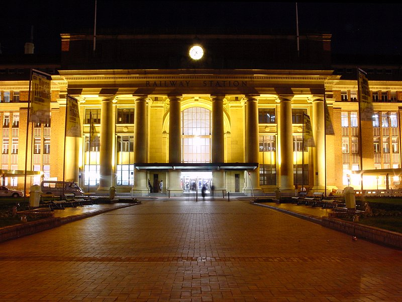 Wellington Railway Station by night. Wellington, New Zealand